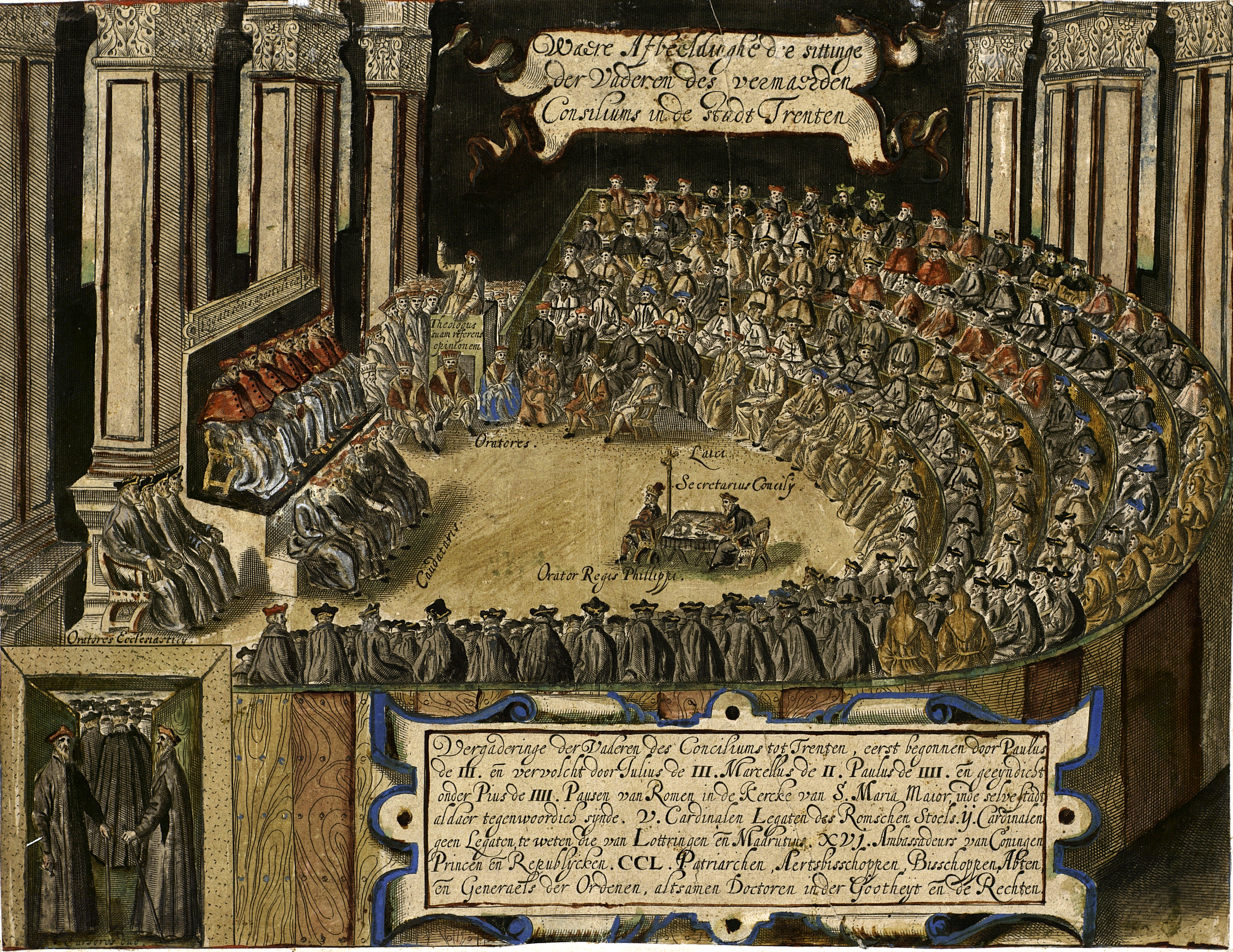 Session of the Council of Trent in "Tyrolischer Adler", vol.IX by Matthias Burglechner ( Austrian State Archives Vienna, House-, Court- and State Archives Hs. W 231/9 )